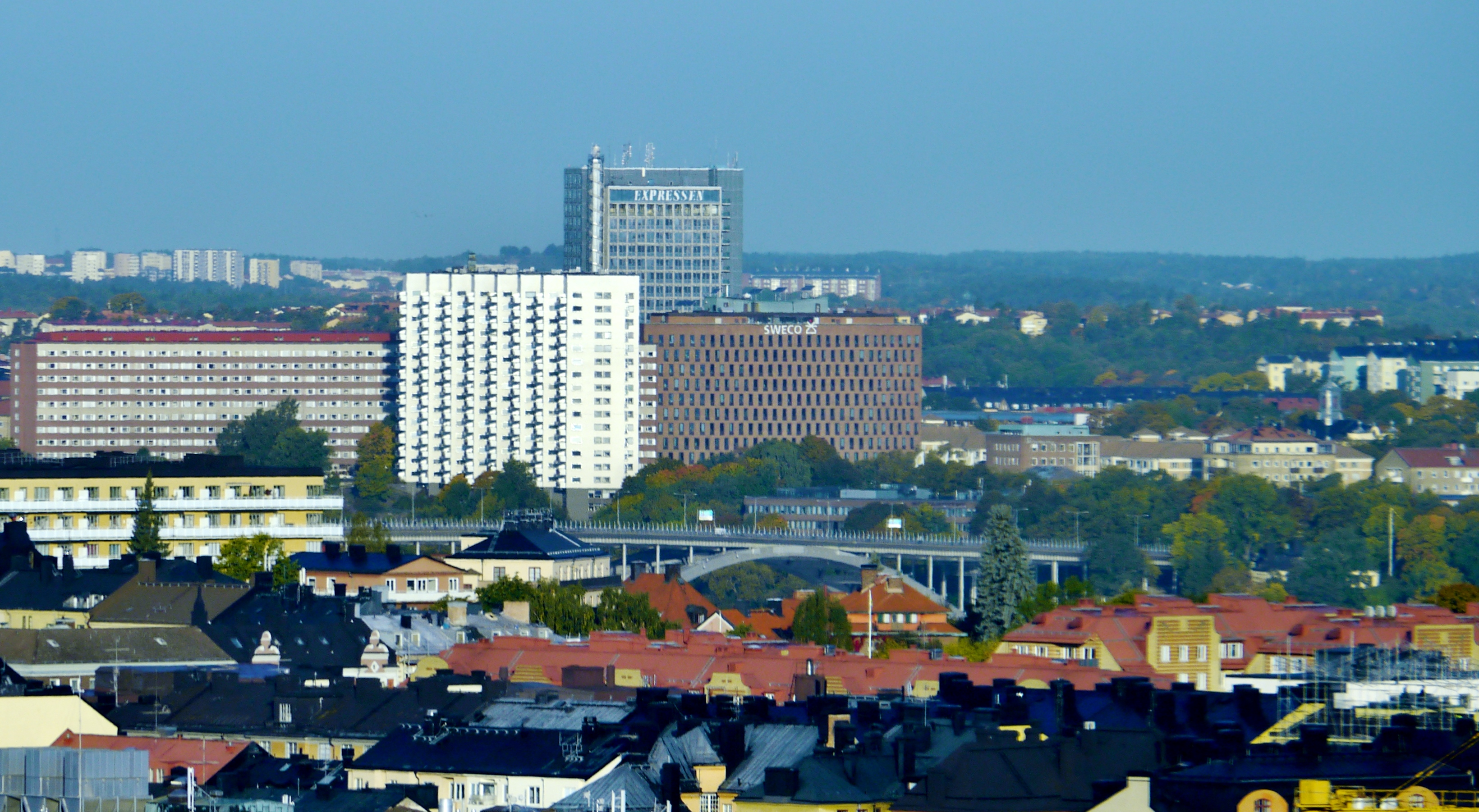 Newspaper area built in the 60´s in Stockholm. The tall buildings in the center.